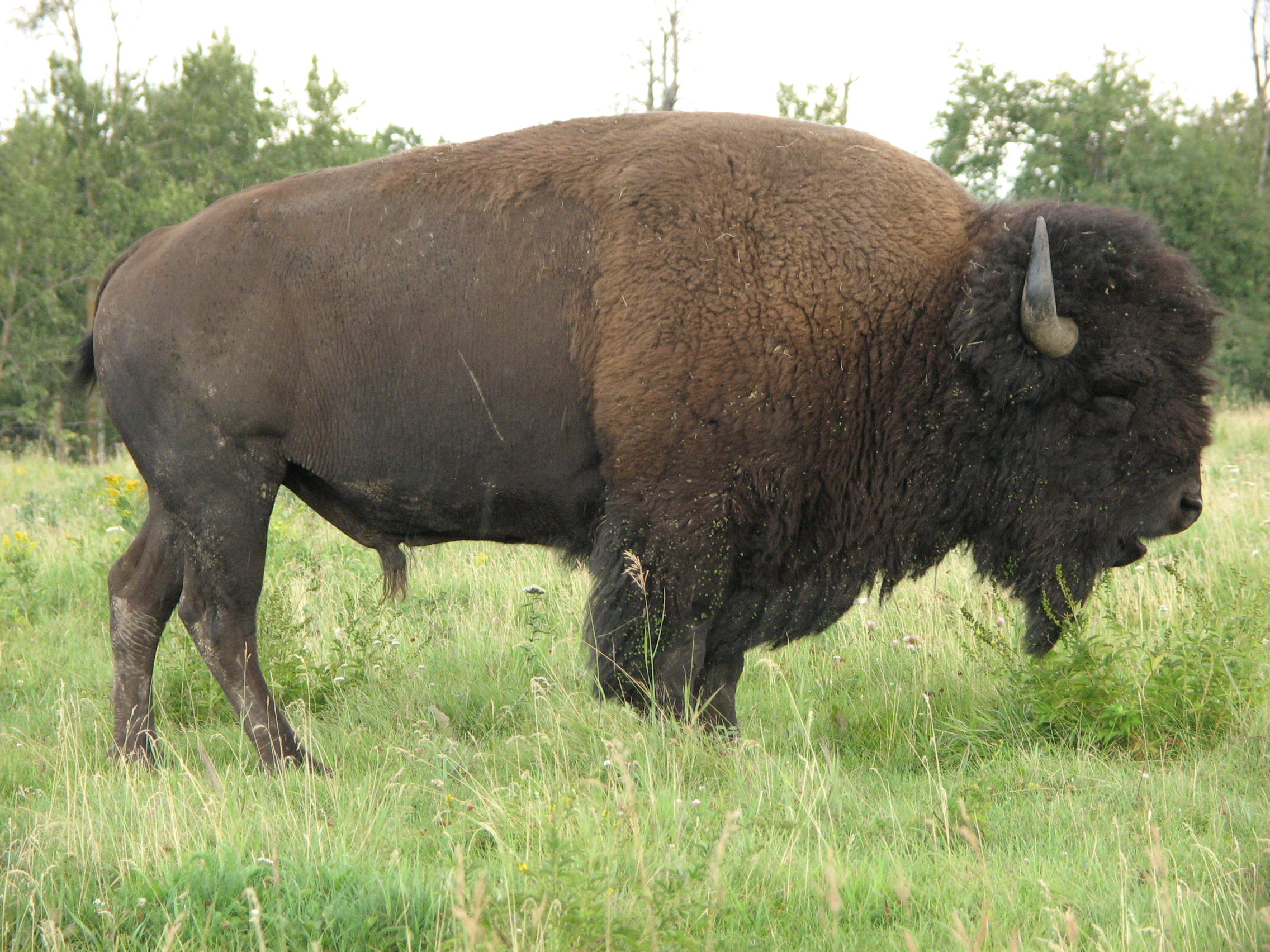 Elk Island National Park